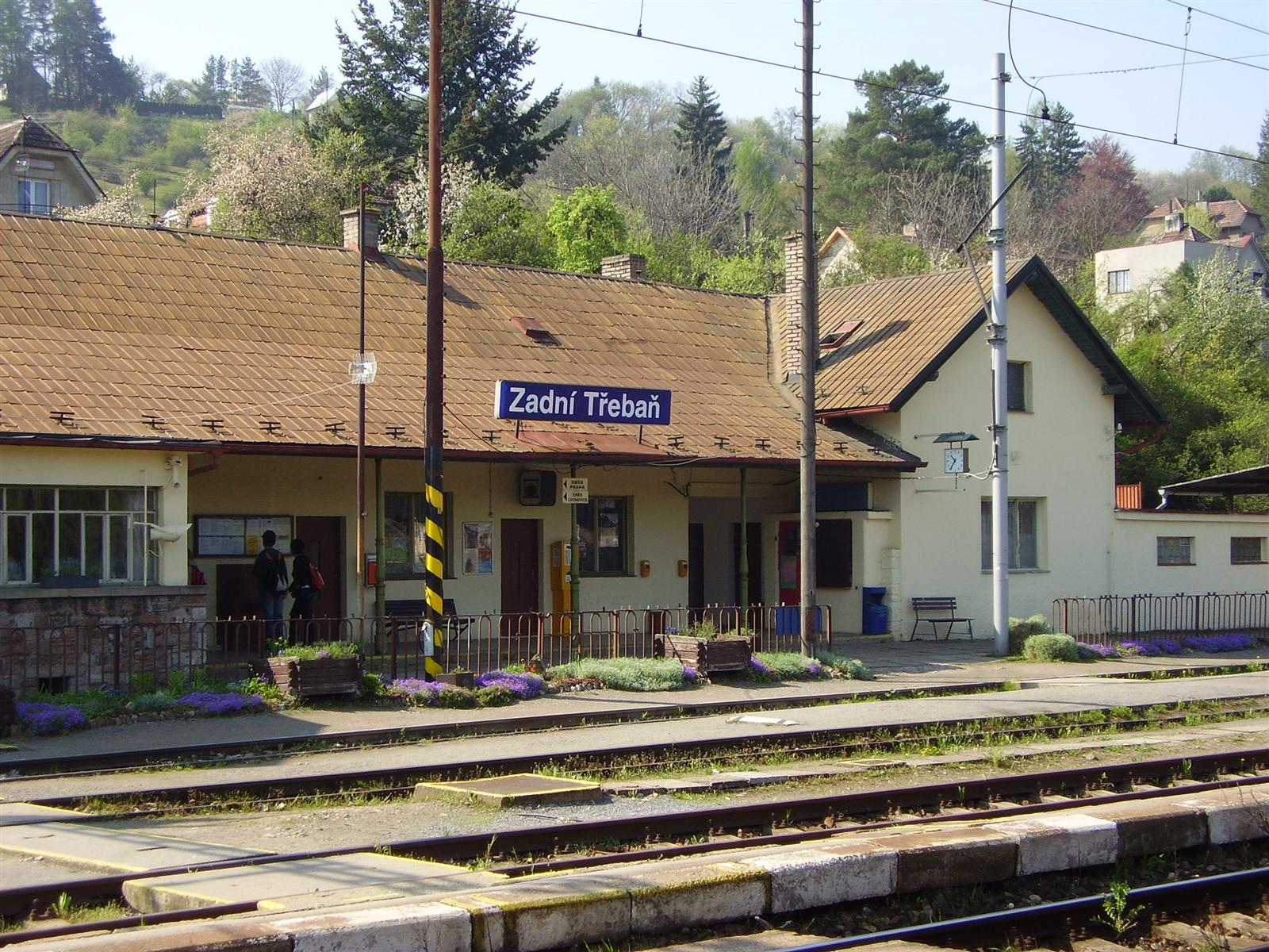 Train station in Zadní Třebáň